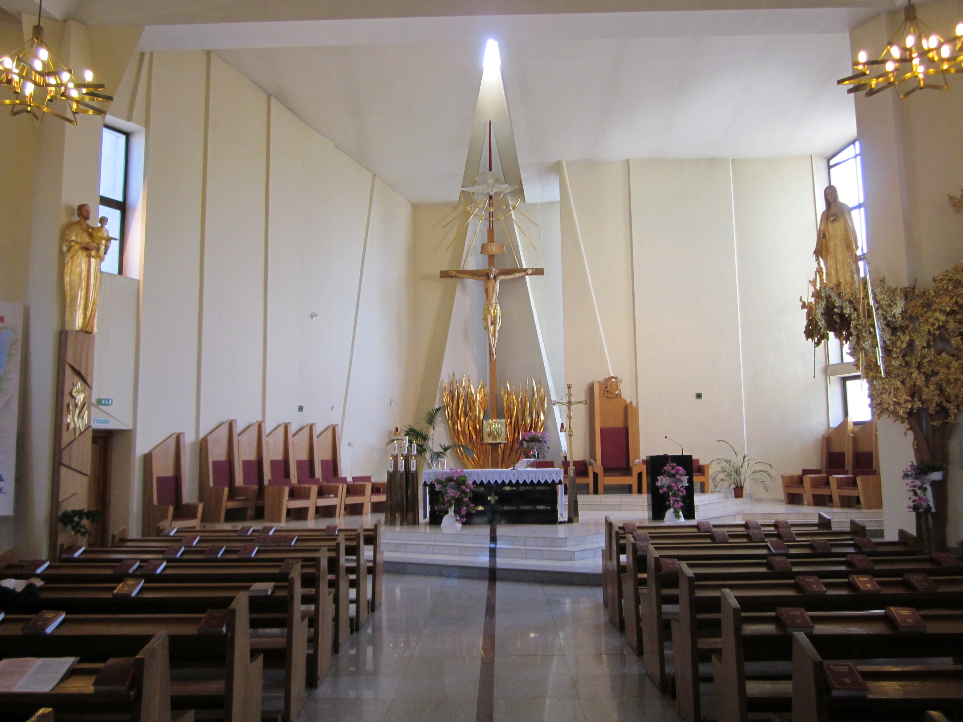 Immaculate Heart of Mary Roman Catholic Cathedral, Irkutsk, Russia